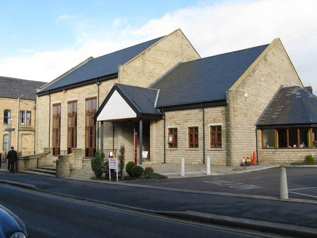 Christ Church, Nelson, Lancashire I have never before seen a church like this one. It is shared between Methodists and Roman Catholics. What an extremely sensible idea. A bright and welcoming building which was open for a cup of tea or coffee on a Friday morning.